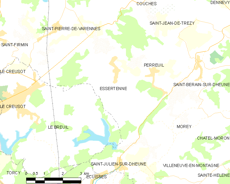 Map of French municipality